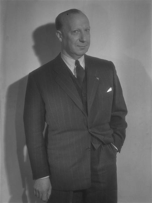 Studio photo